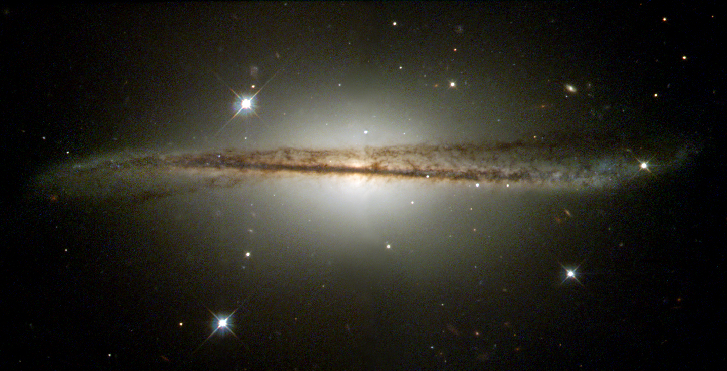 NASA's Hubble Space Telescope has captured an image of an unusual edge-on galaxy, ESO 510-G13, revealing remarkable details of its warped dusty disk and showing how colliding galaxies spawn the formation of new generations of stars. The dust and spiral arms of normal spiral galaxies, like our own Milky Way, appear flat when viewed edge-on. This image shows a galaxy that, by contrast, has an unusual twisted disk structure, first seen in ground-based photographs obtained at the European Southern Observatory (ESO) in Chile. ESO 510-G13 lies in the southern constellation Hydra, roughly 150 million light-years from Earth. Details of the structure of ESO 510-G13 are visible because the interstellar dust clouds that trace its disk are silhouetted from behind by light from the galaxy's bright, smooth central bulge. The strong warping of the disk indicates that ESO 510-G13 has recently undergone a collision with a nearby galaxy and is in the process of swallowing it. Gravitational forces distort the structures of the galaxies as their stars, gas, and dust merge together in a process that takes millions of years. Eventually the disturbances will die out, and ESO 510-G13 will become a normal-appearing single galaxy. In the outer regions of ESO 510-G13, especially on the right-hand side of the image, we see that the twisted disk contains not only dark dust, but also bright clouds of blue stars. This shows that hot, young stars are being formed in the disk. Astronomers believe that the formation of new stars may be triggered by collisions between galaxies, as their interstellar clouds smash together and are compressed. Hubble's Wide Field Planetary Camera 2 (WFPC2) was used to observe ESO 510-G13 in April 2001. Pictures obtained through blue, green, and red filters were combined to make this color-composite image, which emphasizes the contrast between the dusty spiral arms, the bright bulge, and the blue star-forming regions.